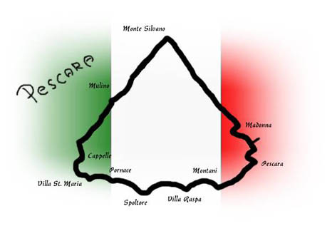 Diagram of the Pescara Circuit, hosted the Coppa Acerbo and the Pescara Grand Prix in 1957.